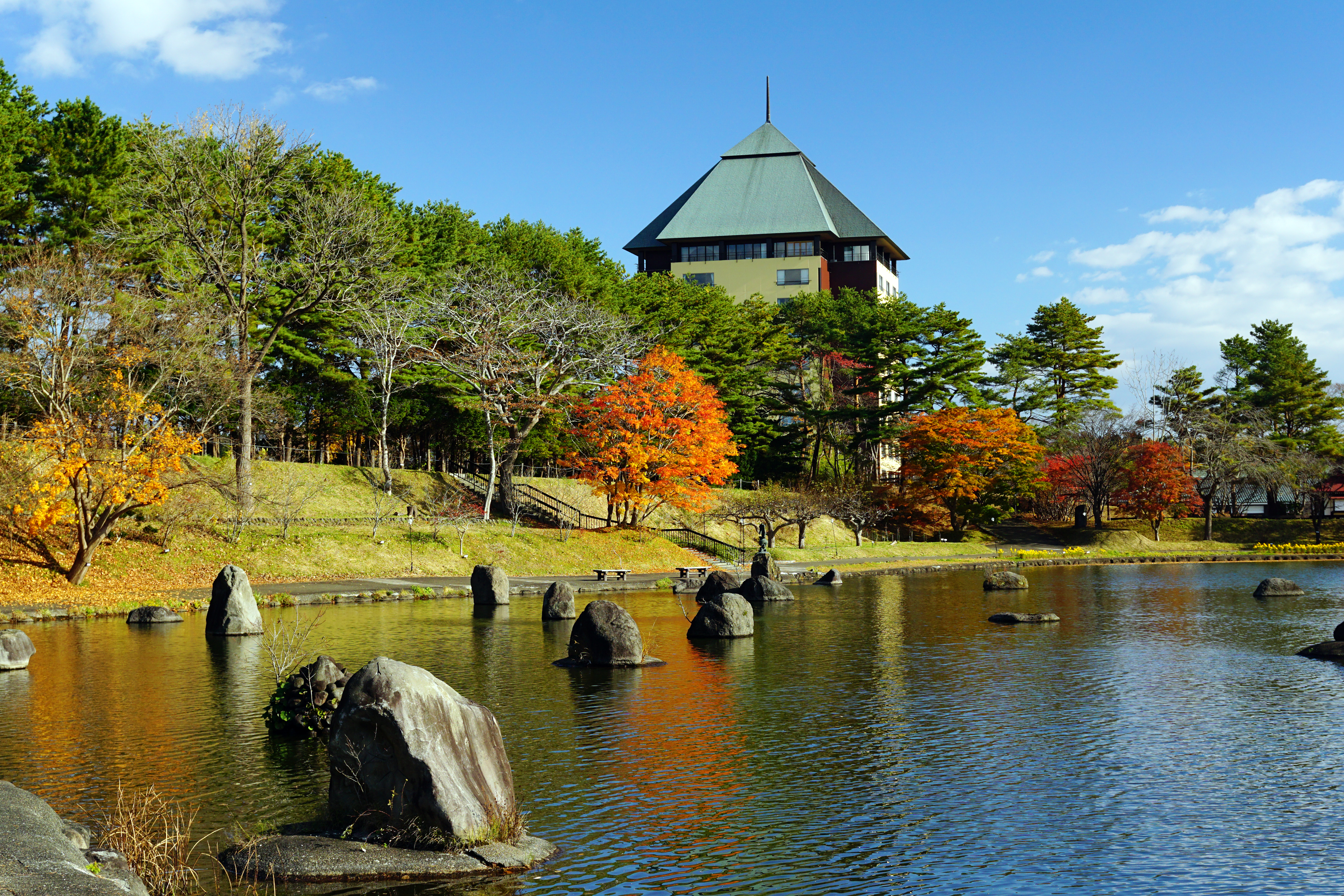 At Komaki Onsen Shibusawa Park in Misawa, Aomori prefecture, Japan.